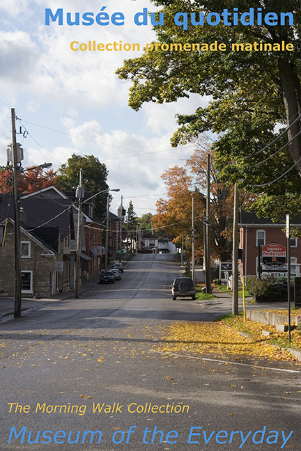 Anne Ramsden, "Museum of the Everyday, The Morning Walk Collection/Musée du quotidien, Collection promenade matinale," 2005-14, inkjet print on polypropylene. Collection of the artist. From the series of 65 photo-posters entitled "Museum of the Everyday/Musée du quotidien," 2005-14. To view the series go to